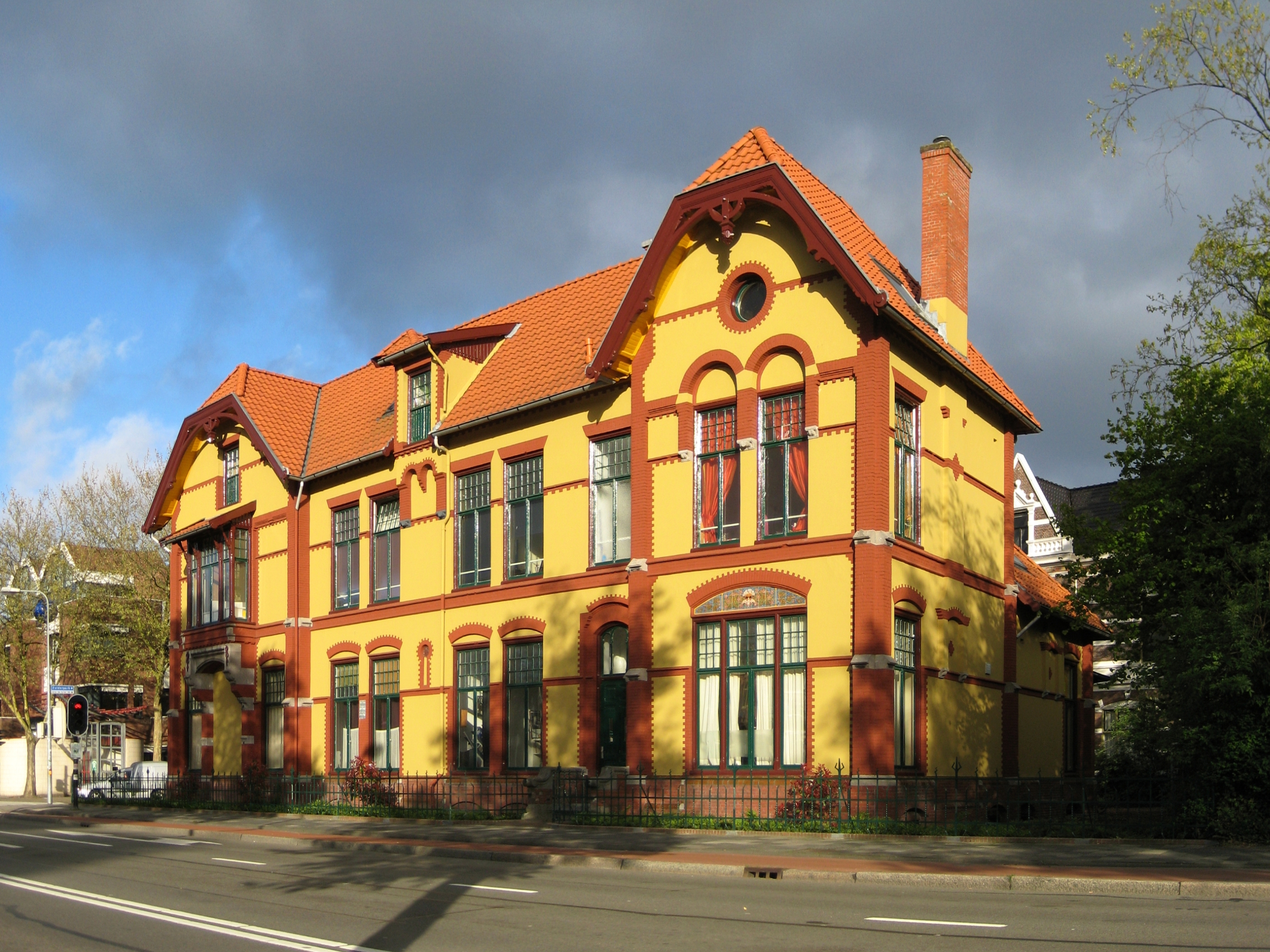 Villa (1896) in the Dutch city of Groningen.